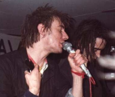 Steve Ignorant with the punk band "Crass", December 1981